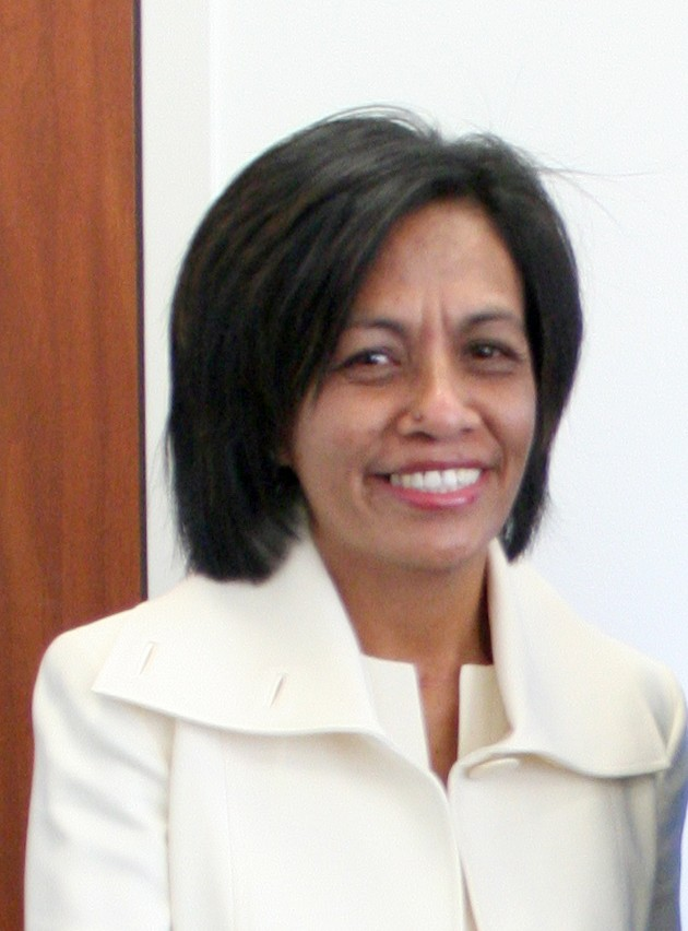 15 April 2010 -- Timor-Leste Minister of Justice Lucia Lobato